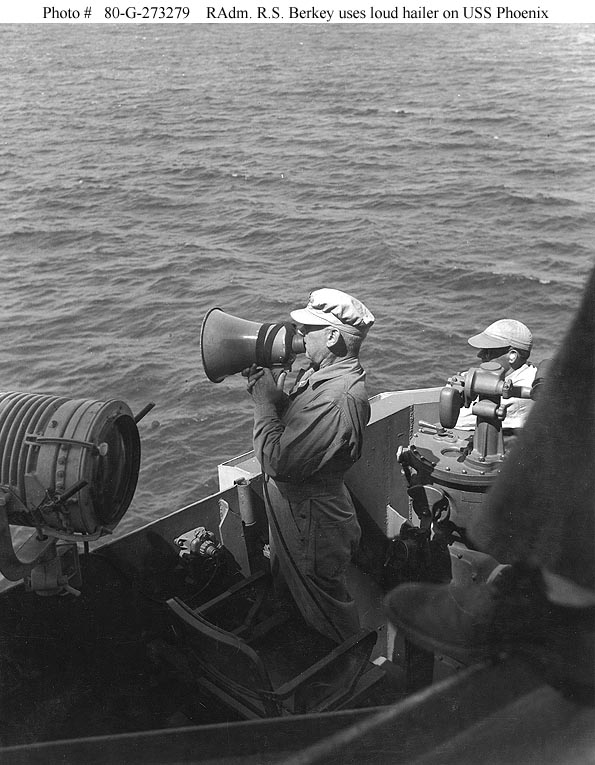 Rear Admiral Russell S. Berkey, USN speaks to another ship via electric megaphone (or loud hailer) from the bridge of his flagship, the light cruiser USS Phoenix (CL-46), during the pre-landing bombardment of Corregidor, 15 February 1945. The original caption identifies the ship being spoken to as HMAS Australia (D84), which was not present. It may refer to HMAS Shropshire, whose appearance was similar to that of Australia.